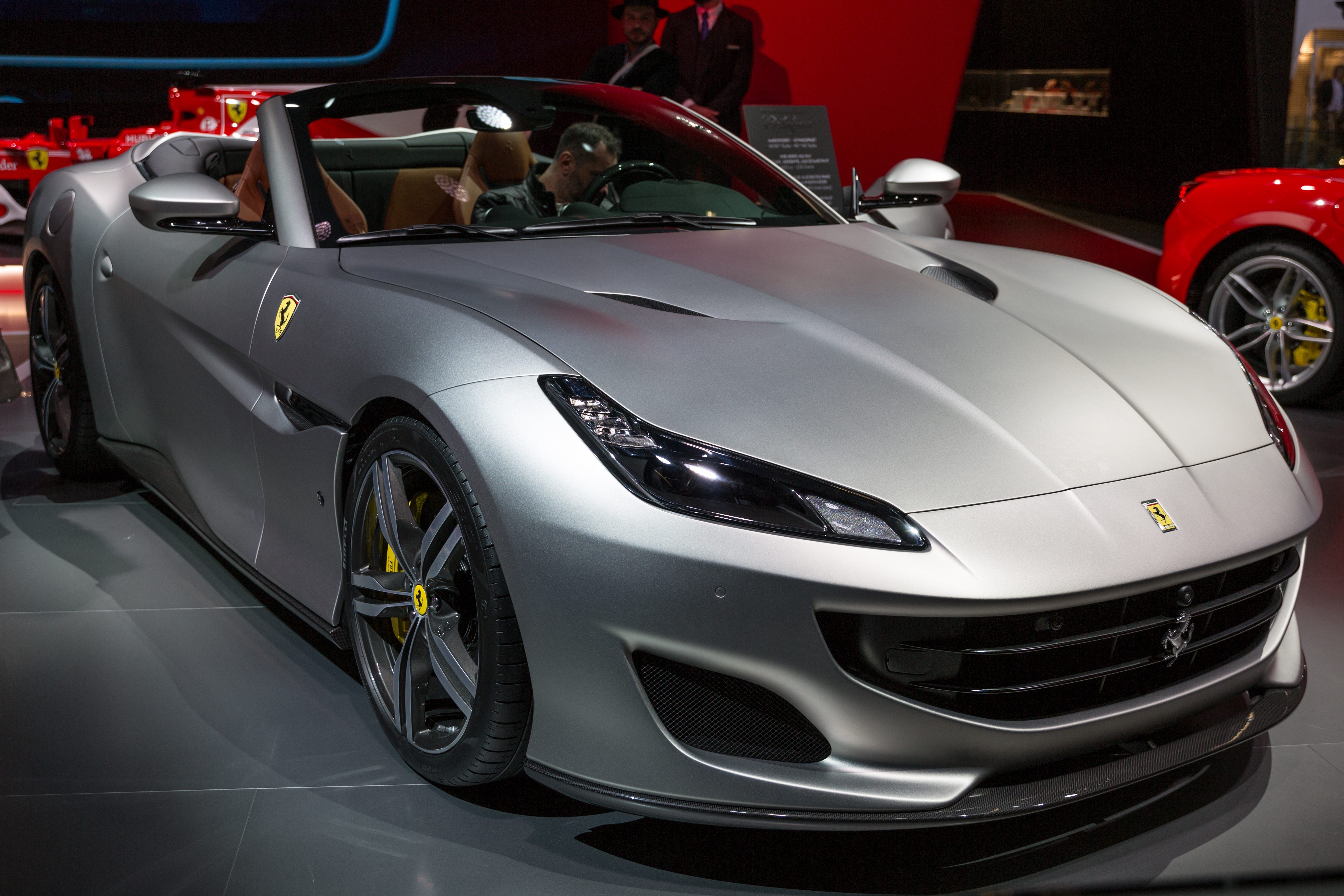 Ferrari Portofino, IAA 2017